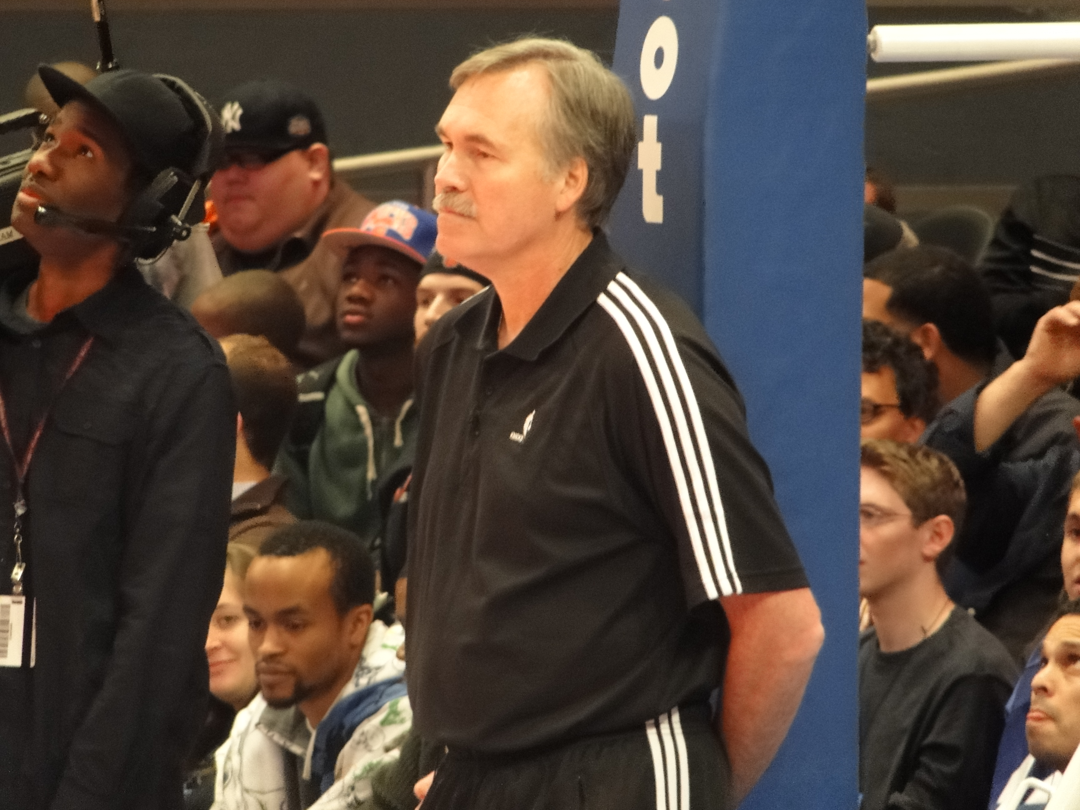 Mike D'Antoni, New York Knicks head coach